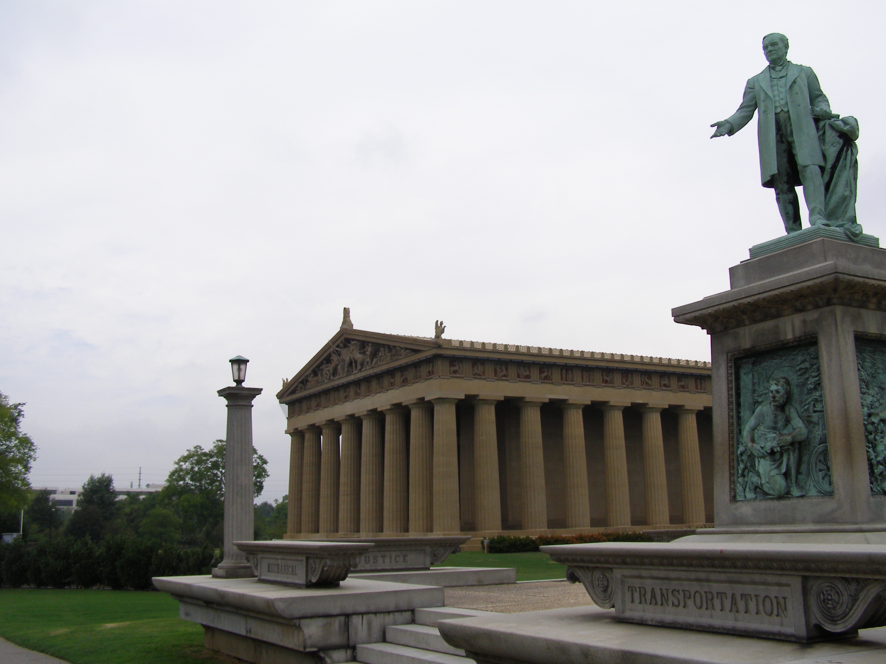 Parthenon replica in Centennial Park, Nashville, Tennessee.